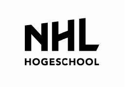 NHL University of Applied Sciences logo